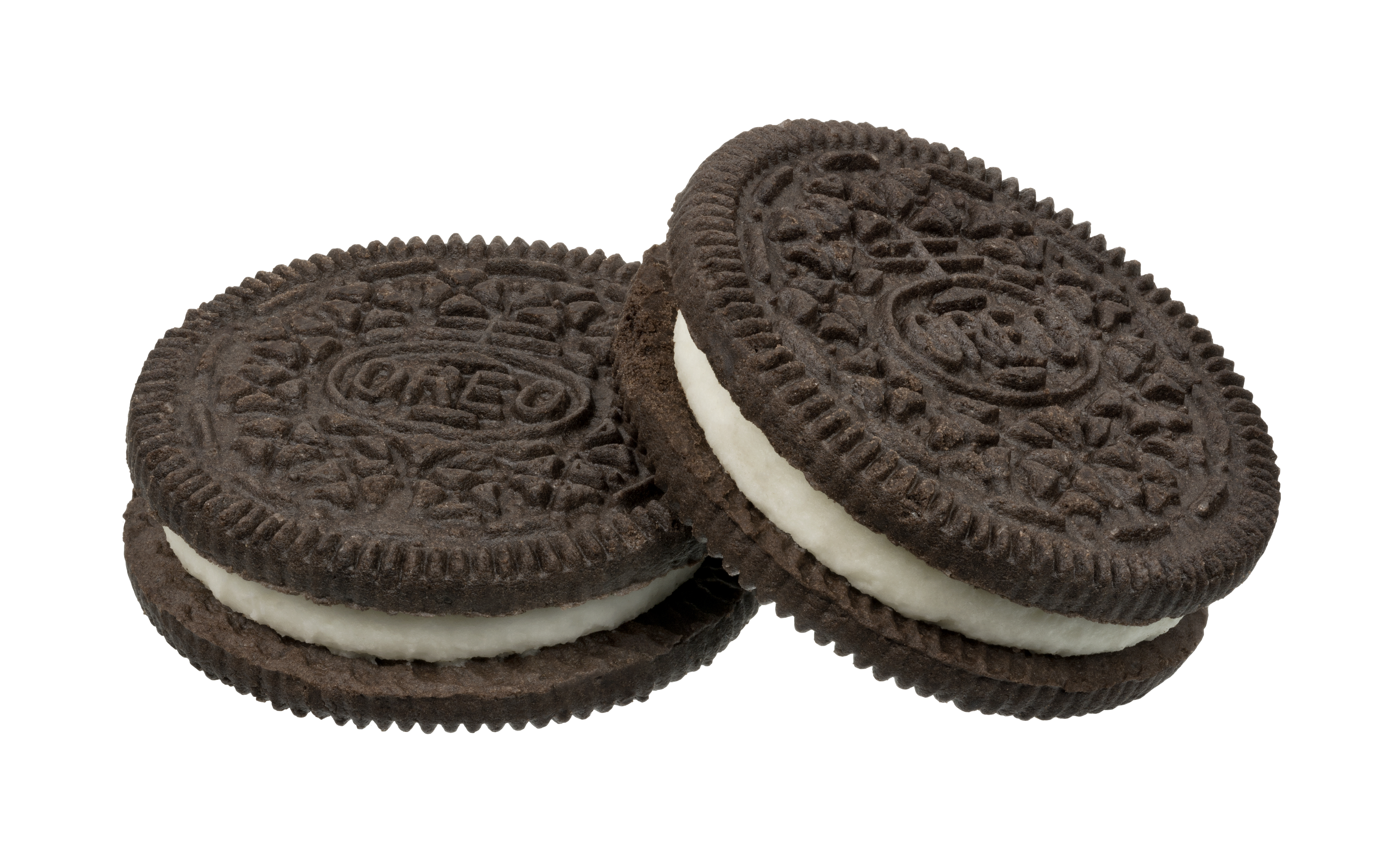 Two Double Stuf Oreos, by Nabisco. Bought in a New York supermarket.